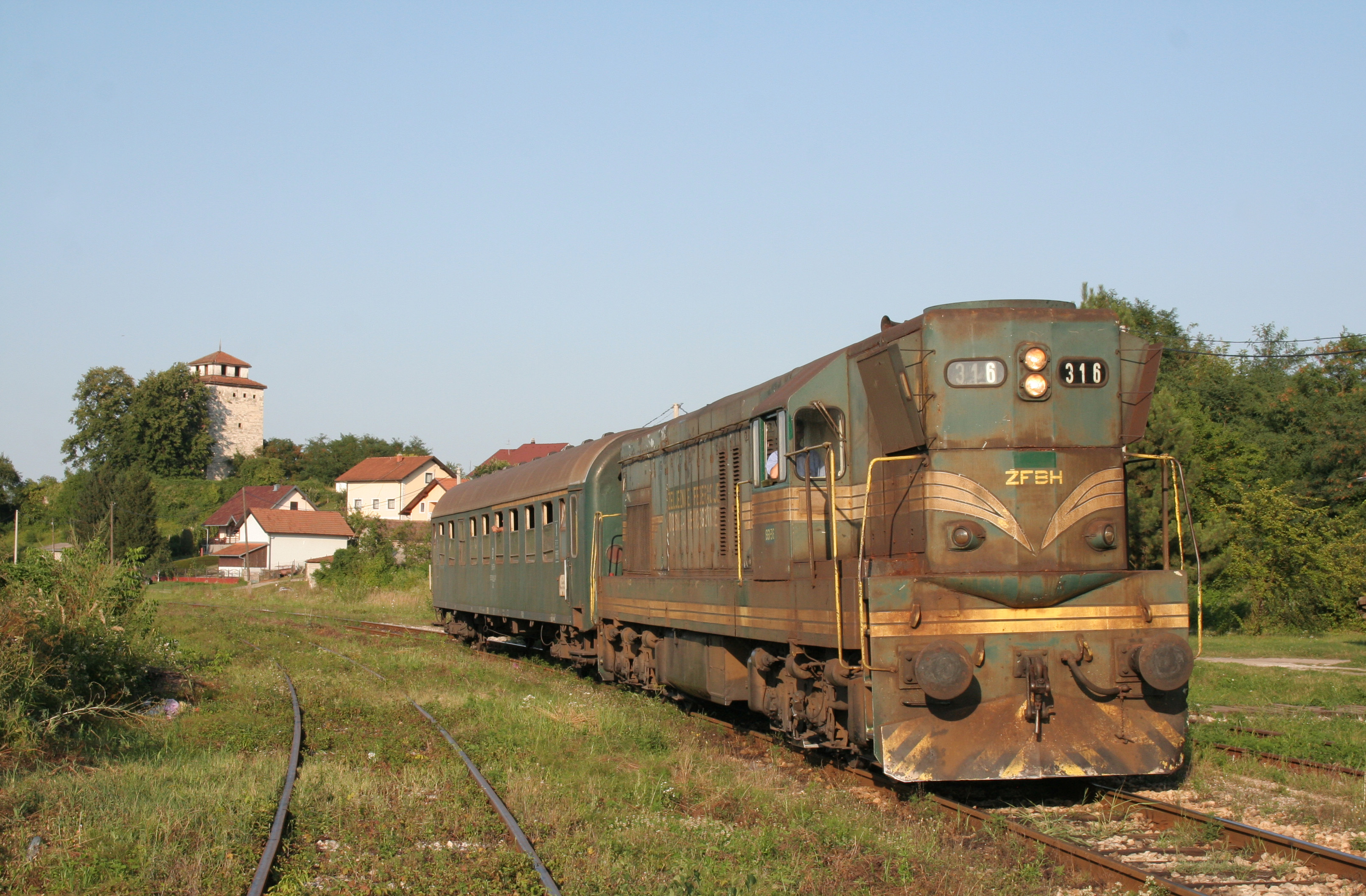 Local Bosnian train between Brčko and Tuzla in Bos Bojela